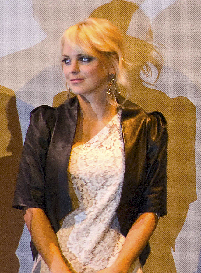 Anna Faris at the Observe and Report world premiere.